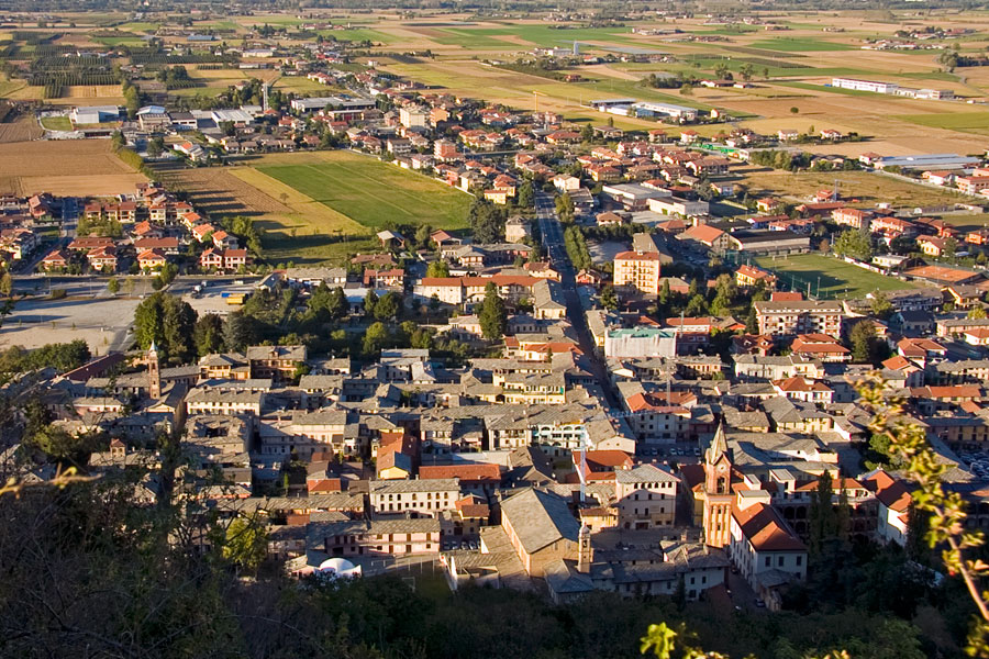 Panorama of Cavour, Turin, Italy